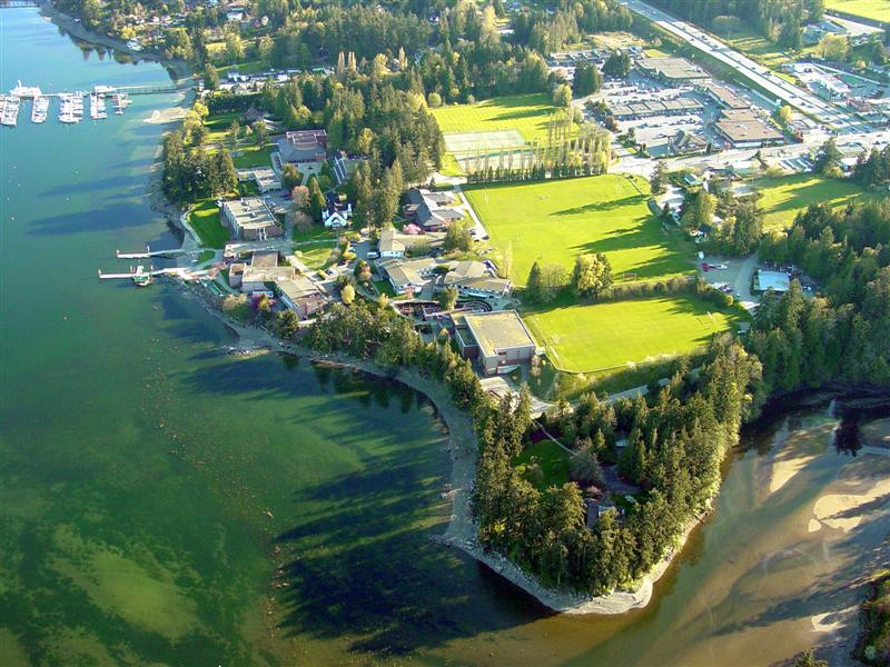 Another aerial photo of the Brentwood College School campus.